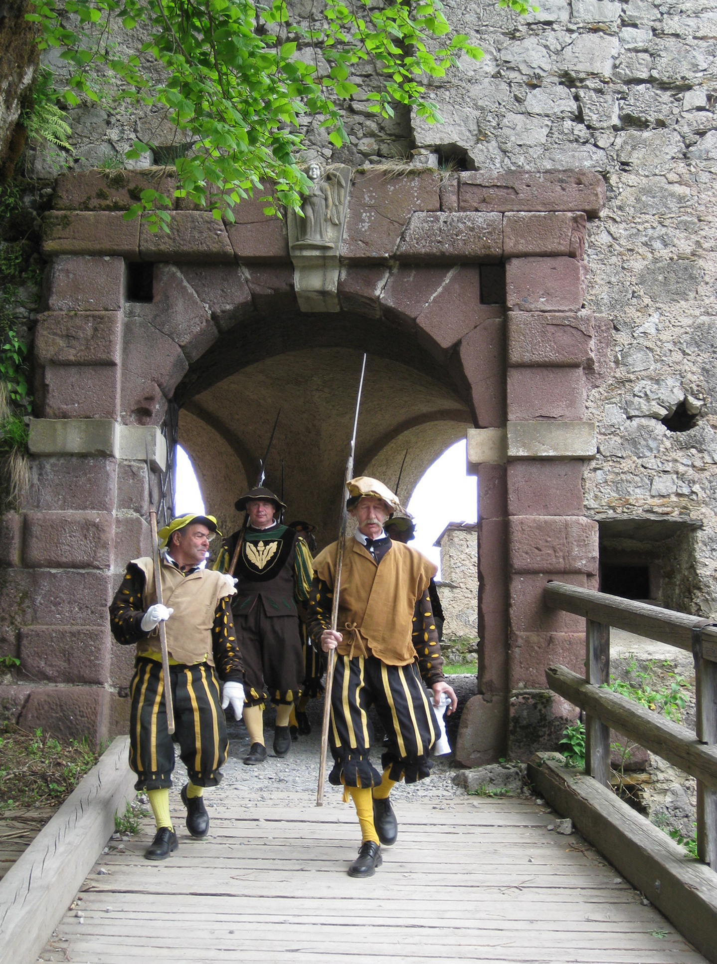 Hochosterwitz castle (slovenian: grad Ostrovica), castle in Carinthia state, Austria 4th door